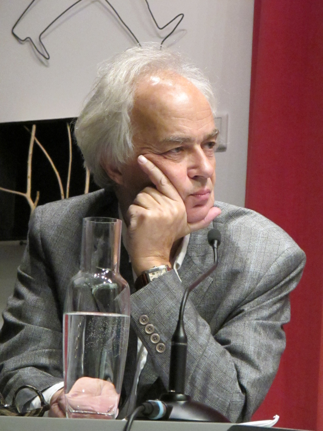 Christian Döring at the presentation of the award winners of Leonce-und-Lena award in the Lyrik Kabinett in Munich, 2017